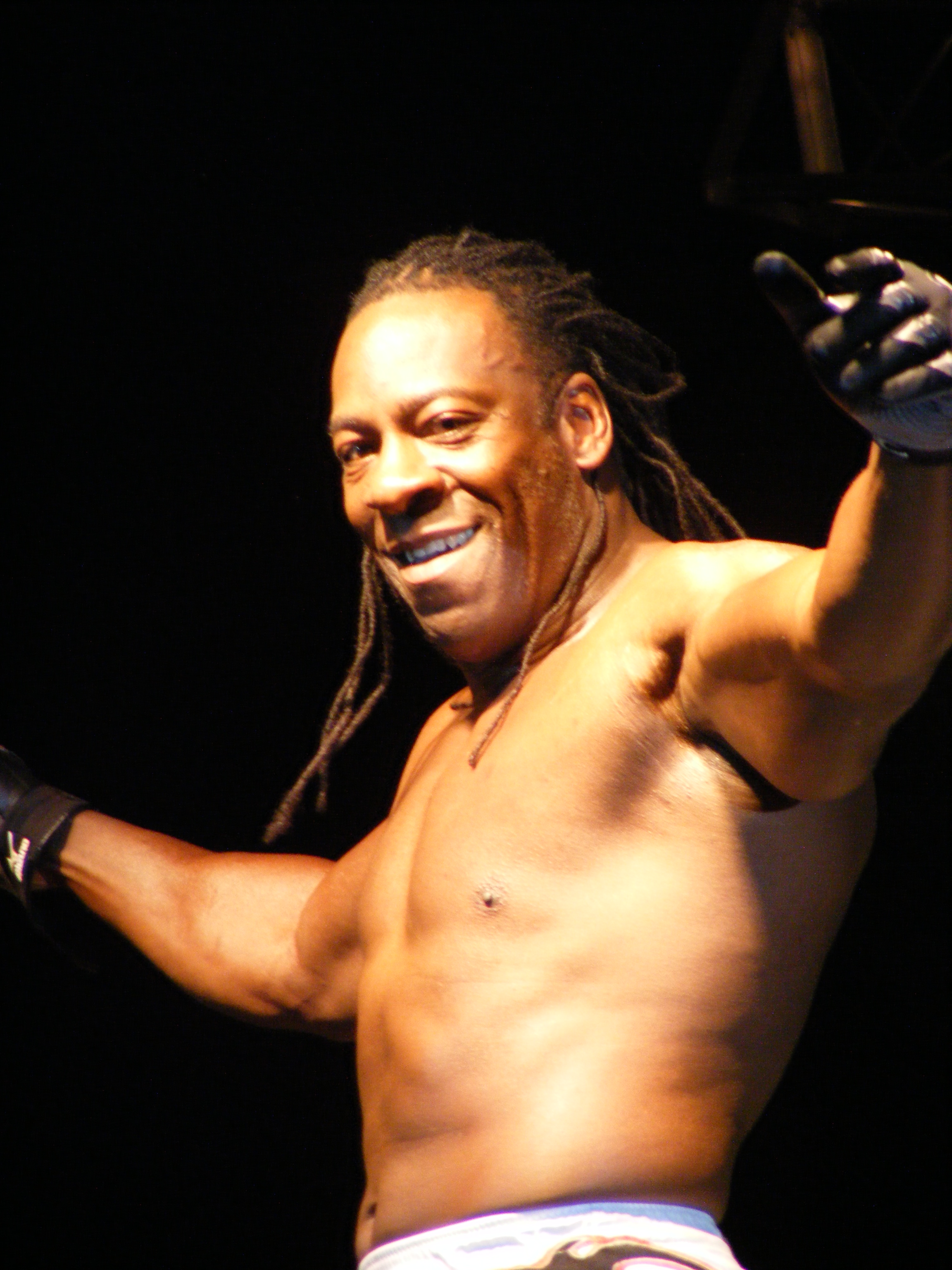 Booker Huffman